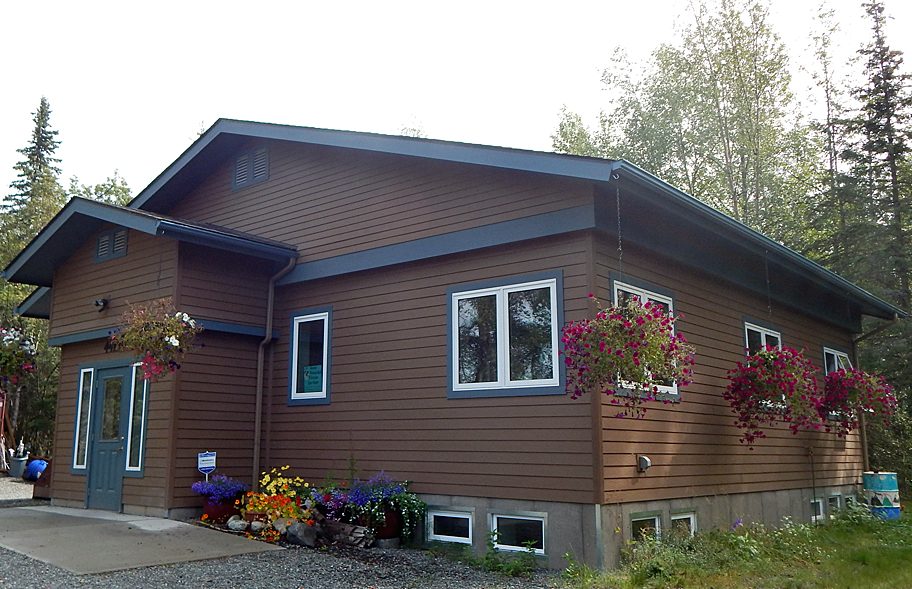 Kenai Watershed Forum Headquarters at the Historic Ralph Soberg House in Soldotna Creek Park, Alaska